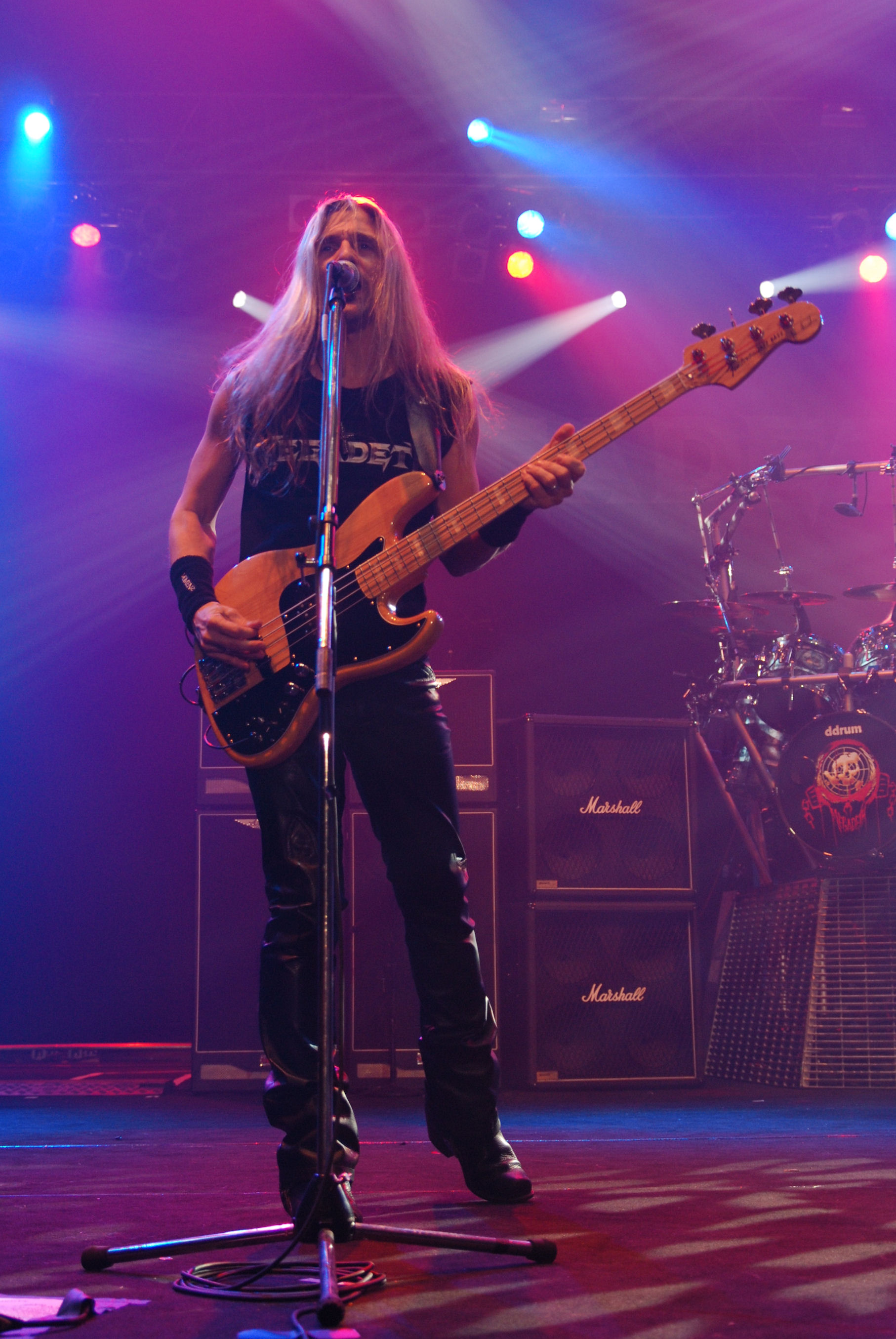 James LoMenzo from Megadeth during Metalmania 2008 festival